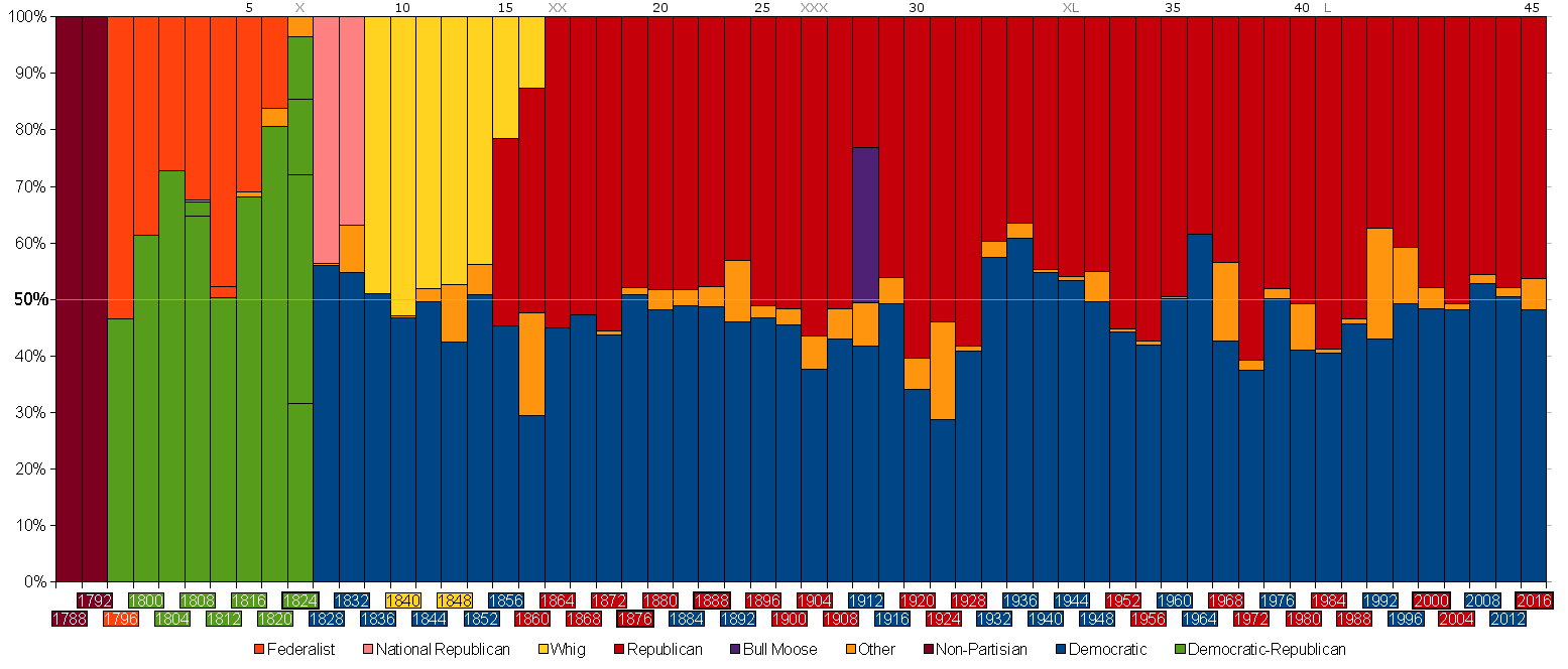 The popular vote of the party in United States presidential elections. The boxes which contain the year are colored in according to which party won the presidency that year. A double thick boarder indicates that the party won despite not having a popular vote majority. Data from 1788 to 1820 from Data from 1824 to 2008 from Data from 2012 from various news sources. Criteria for inclusion: Party must have either won the presidency or have gotten more than 25% of the popular vote. Please DO NOT update this with future results unless you have the .ods file. Please DO NOT update this with more accurate numbers as they become available. The accuracy is within one or two pixels, and the graph will be updated when the numbers are finalized. Created with